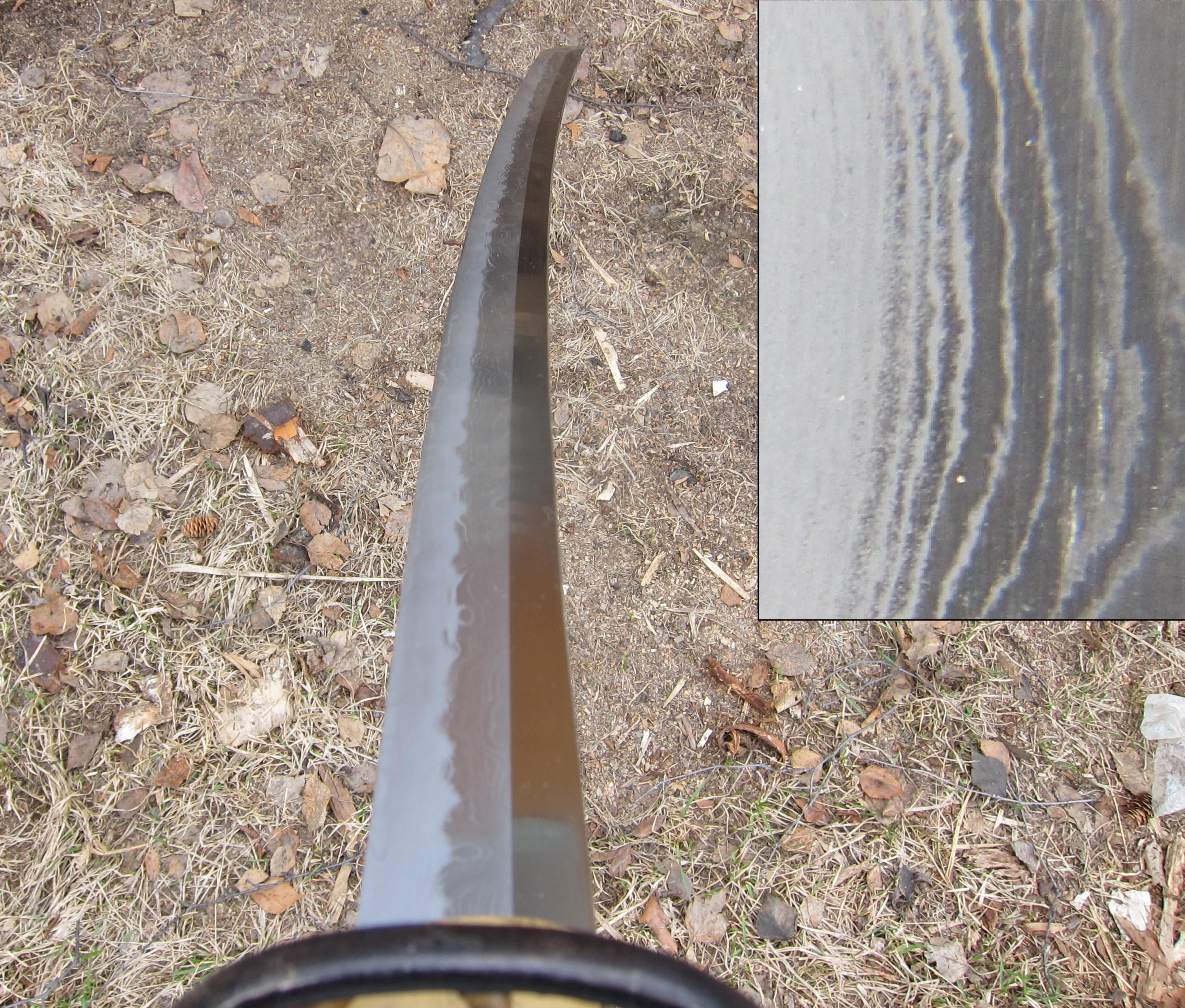 A katana of the kobuse type, made in the traditional Japanese style. The hardened edge is separated from the softer back by a bright, wavy line, called the nioi. The edge of this bright line, called the hamon, marks the boundary between the martensitic portion (the yakiba) from pearlitic center area (the hira). The wavy shape of the hamon is from the manner in which the insulating clay was appllied before quenching. The inset shows a close-up of the nioi, which is made up of niye. The niye are single, bright grains of martensite surrounded by pearlite, which are seen as the speckled zone between the bright yakiba and the darker hira. The wood-grain appearance comes from alternating layers of steel that have different hardenability.